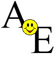 This image was created by Eric Lis and is posted with written permission. Downloaded from